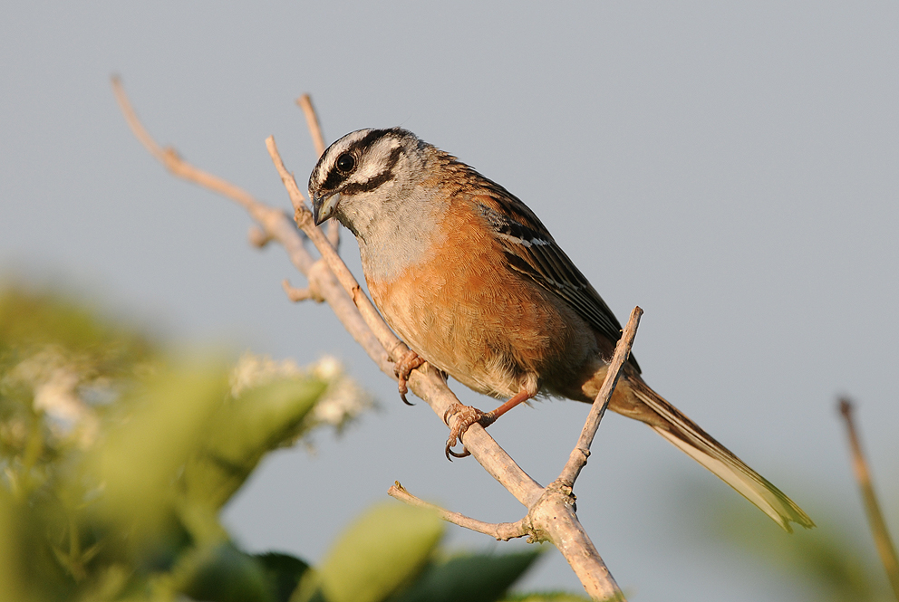 Rock Bunting Emberiza cia, Wagram area, Austria.